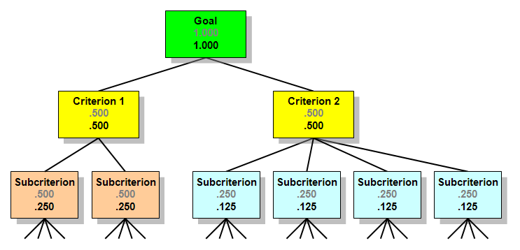 Original drawing used to illustrate the Analytic Hierarchy Process article. I release this image to the public domain.